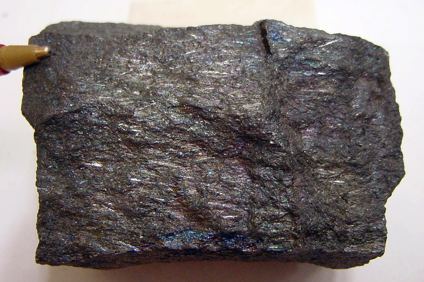 Berthierite. Pen for scale.No locality given. Mineral collection of Bringham Young University Department of Geology, Provo, Utah. Photograph by Andrew Silver. BYU index 3-4010, FeS - Sb_2S_3.